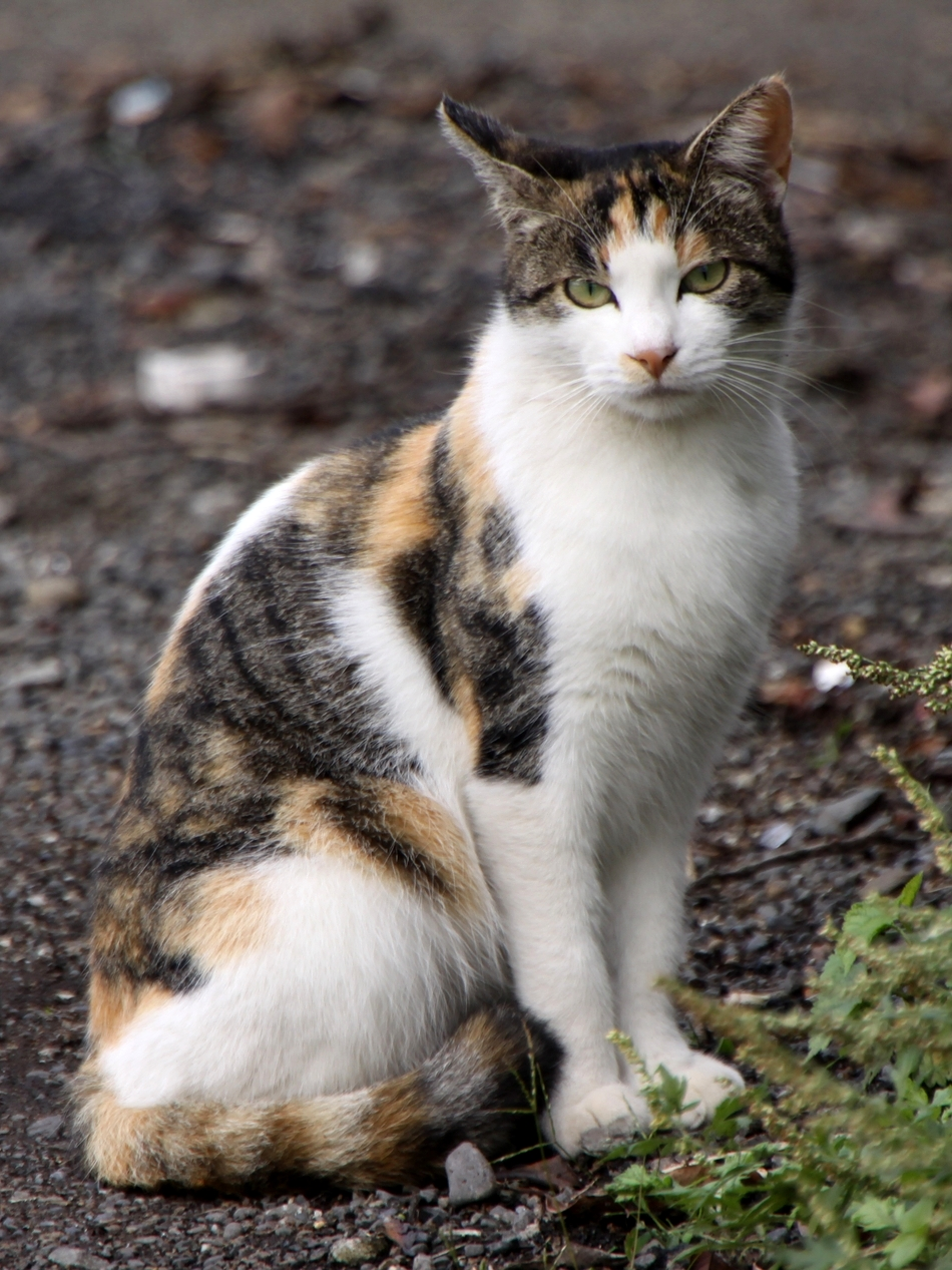 A stray calico cat near Sagami River, Honshu, Japan